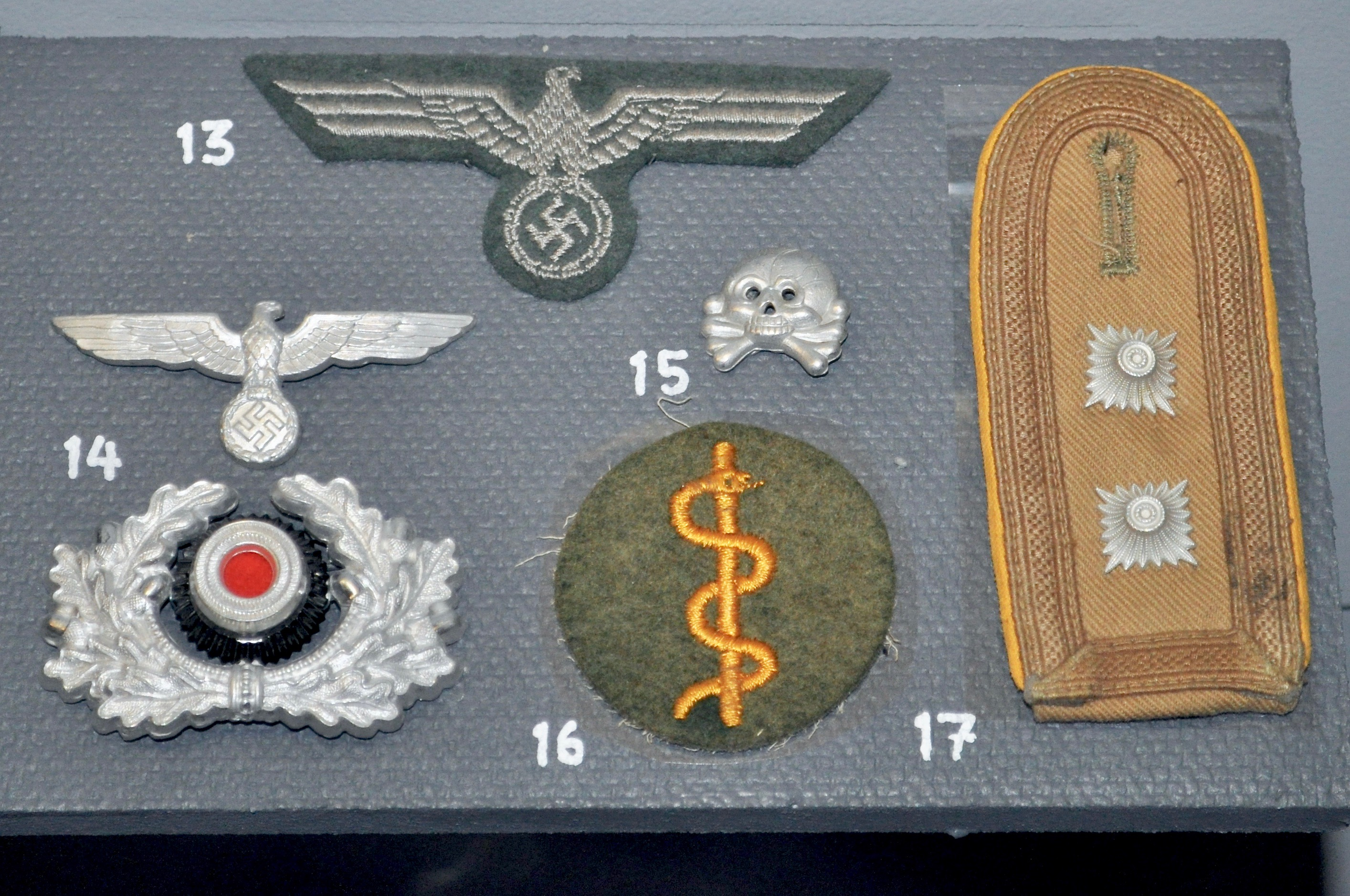 Military decorations of the Third Reich. Fort Lewis Military Museum, Fort Lewis, Washington, USA. 13. Army enlisted mans breast eagle 14. Army cap insignia 15. Army tank crews collar skull insignia 16. Army medics sleeve insignia 17. Cavalry NCOs shoulder strap, tropical uniform Identifications based on File:FLMM - Nazi badges & insignia list.jpg.